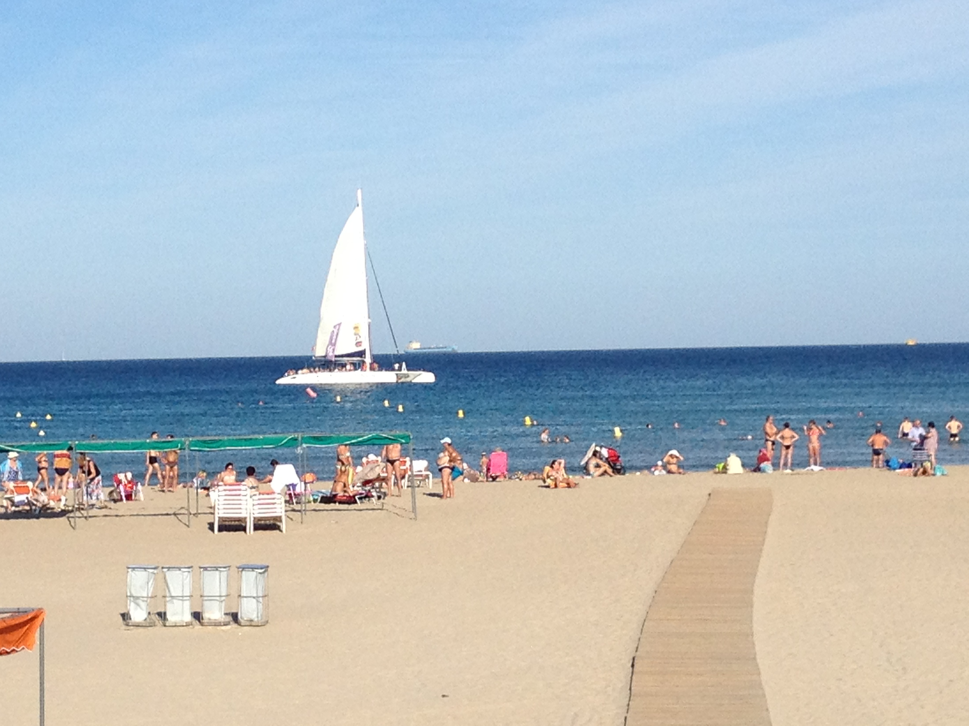 La Pineda beach, Costa DauradaLietuvių: La Pinedos pliažas, Kosta Dorada